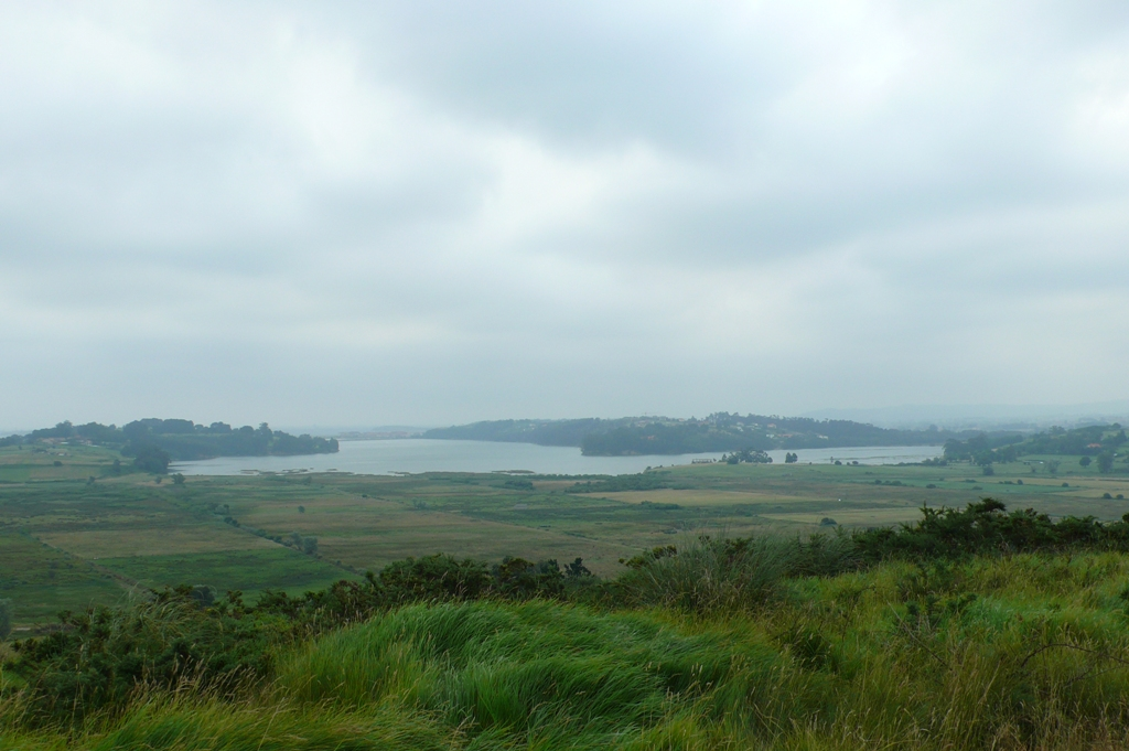 Ría de Cubas, estuary of Miera river, in Cantabria (Spain)